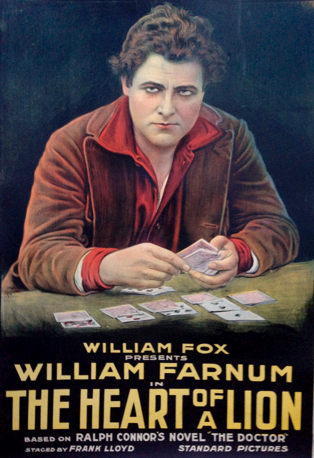 Poster for the 1917 American film The Heart of a Lion with William Farnum.